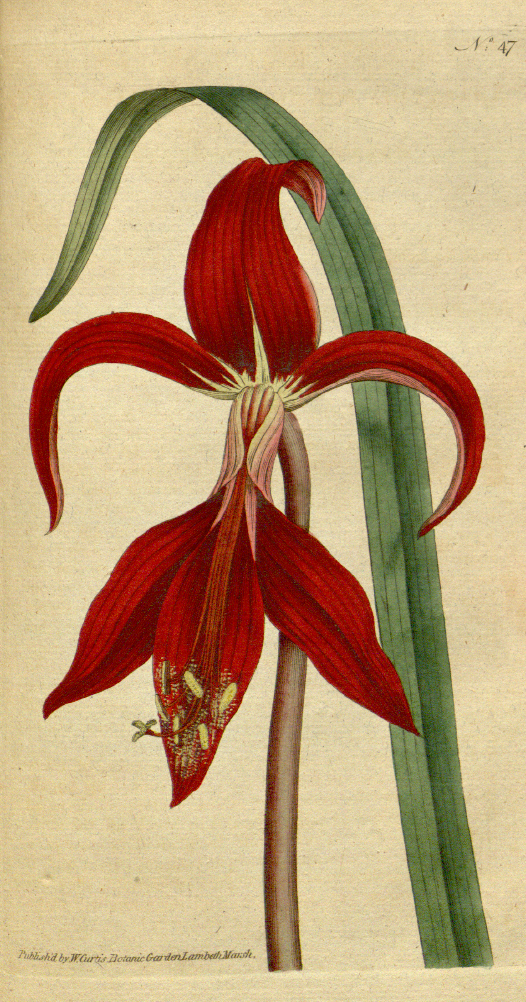 This is a plate from The Botanical Magazine, Volume 2.